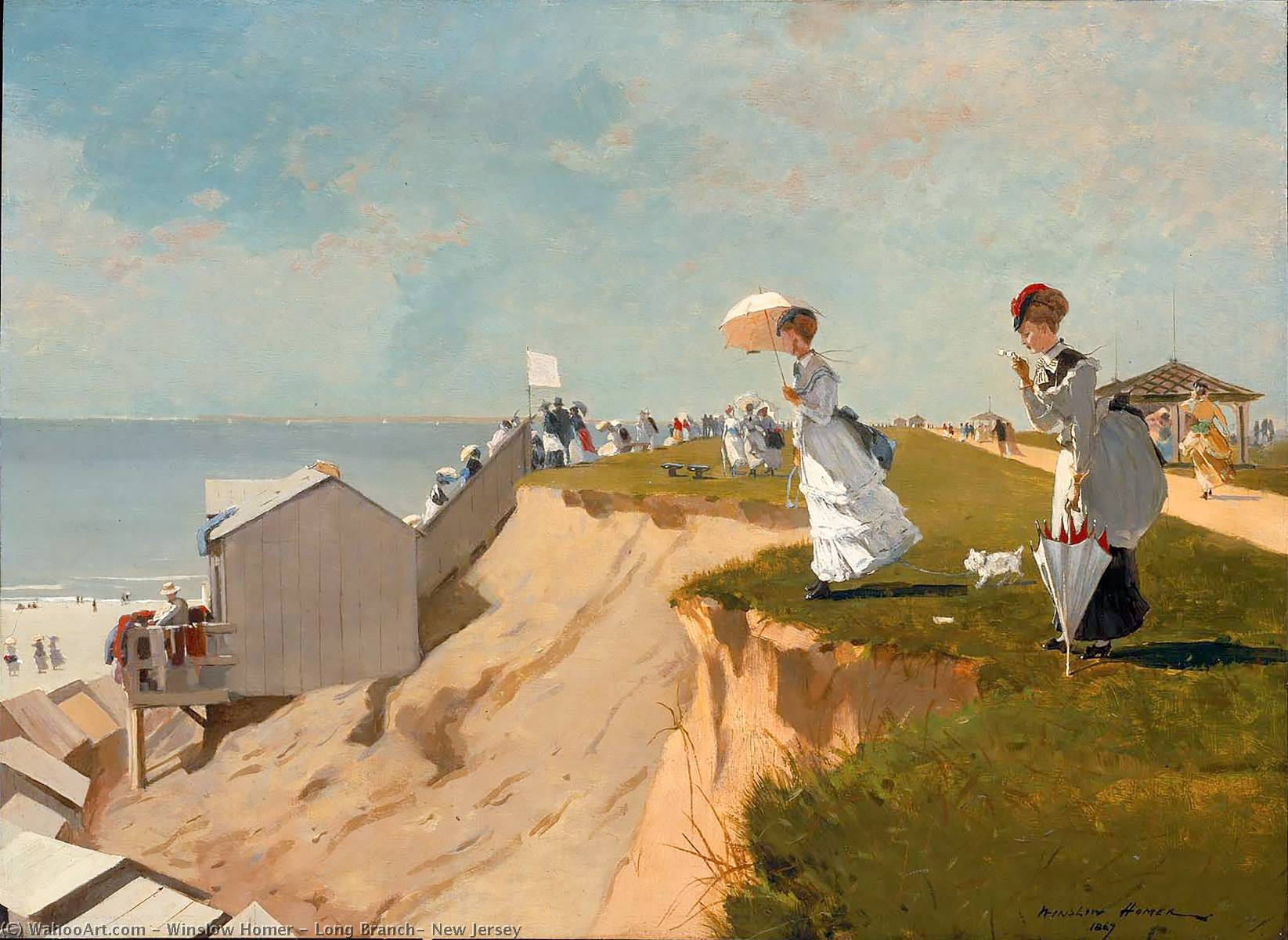 Long Branch, New Jersey By Winslow Homer